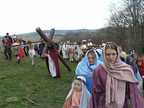 Kalwaria Pacławska Poland